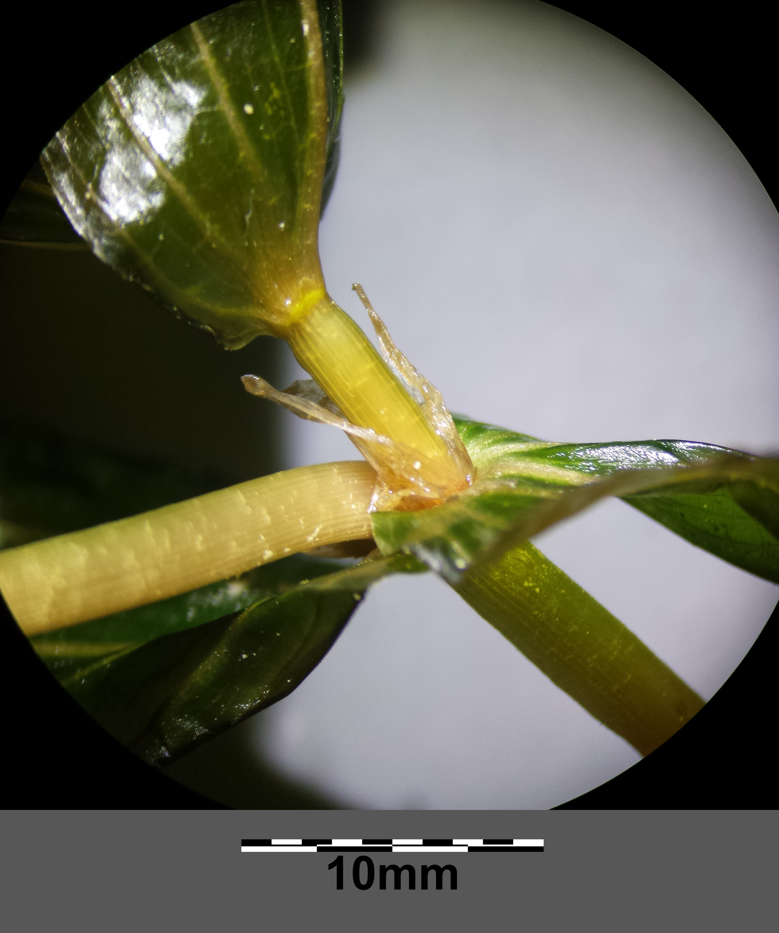 Stem with leaf and leaf-sheath Taxonym: Potamogeton perfoliatus ss Fischer et al. EfÖLS 2008 ISBN 978-3-85474-187-9 Location: Neue Donau, district Korneuburg, Lower Austria - ca. 160 m a.s.l. Habitat: anabranch